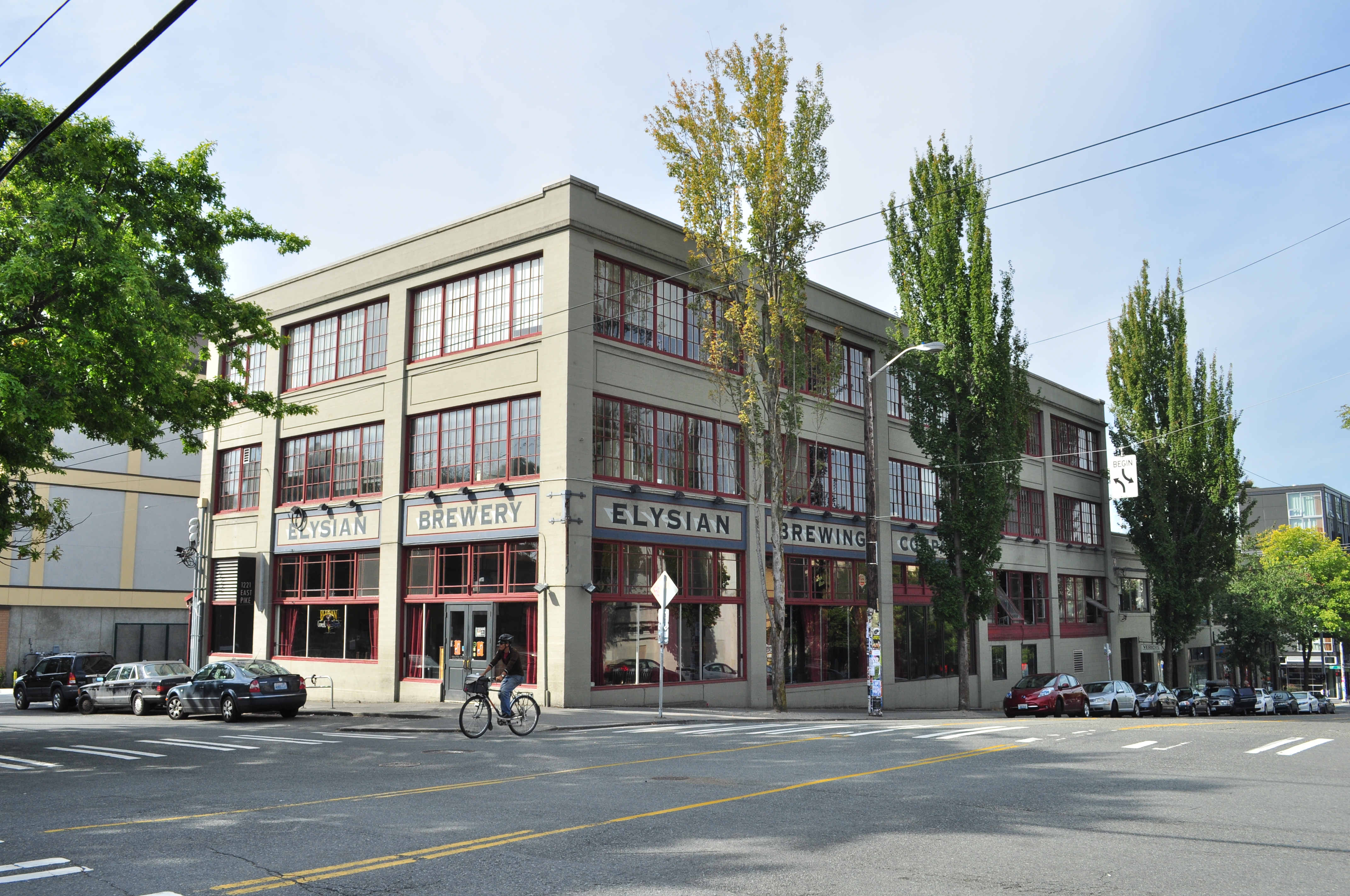 Elysian Brewing Company, 1221 East Pike Street, Seattle, Washington.